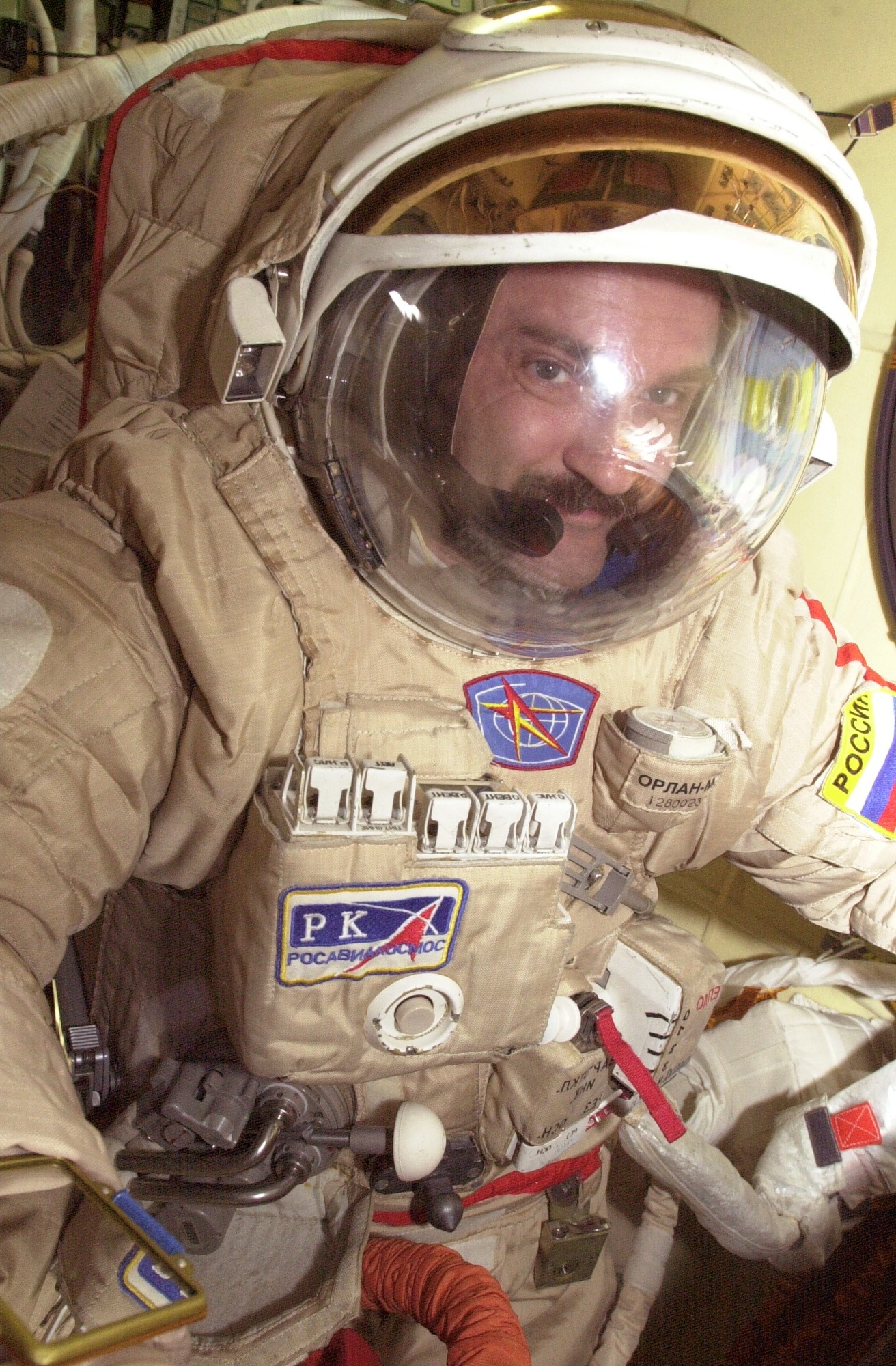 Cosmonaut Alexander Y. Kaleri, Expedition 8 flight engineer, attired in his Russian Orlan spacesuit, is pictured in the Pirs Docking Compartment on the International Space Station (ISS). Kaleri represents Rosaviakosmos.